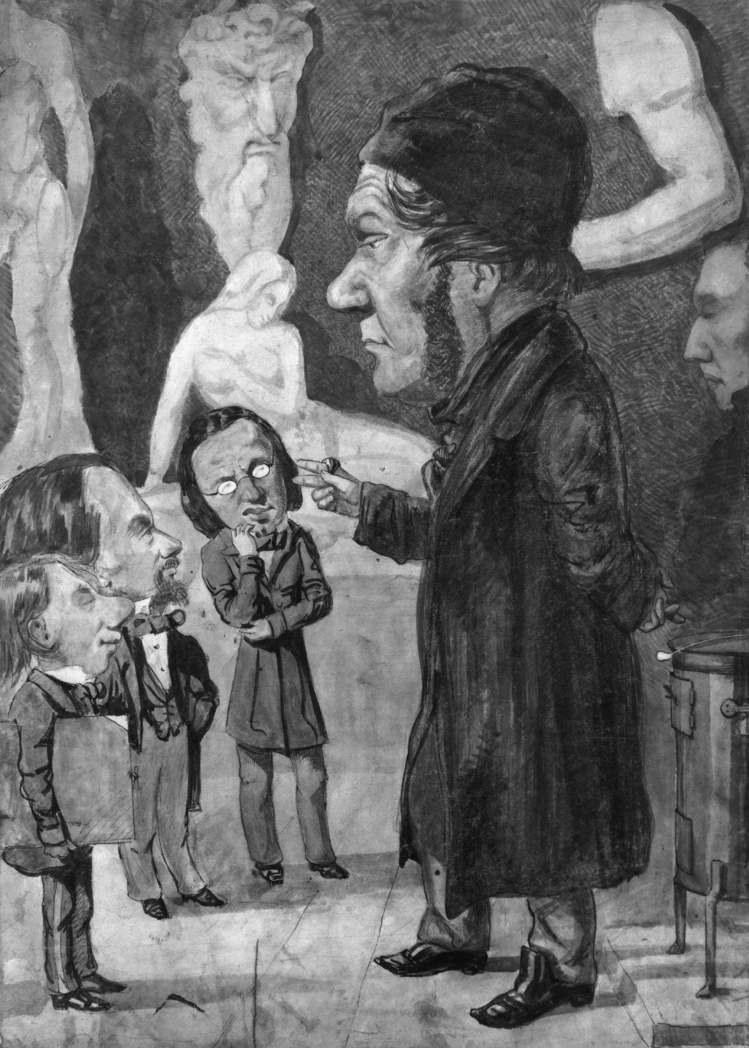 Edward Hodges Baily in his Studio, by unknown artist. All images in this batch have an unknown author, but there is strong evidence it was first published before 1923 (based mainly on the NPG's estimated date of the work).